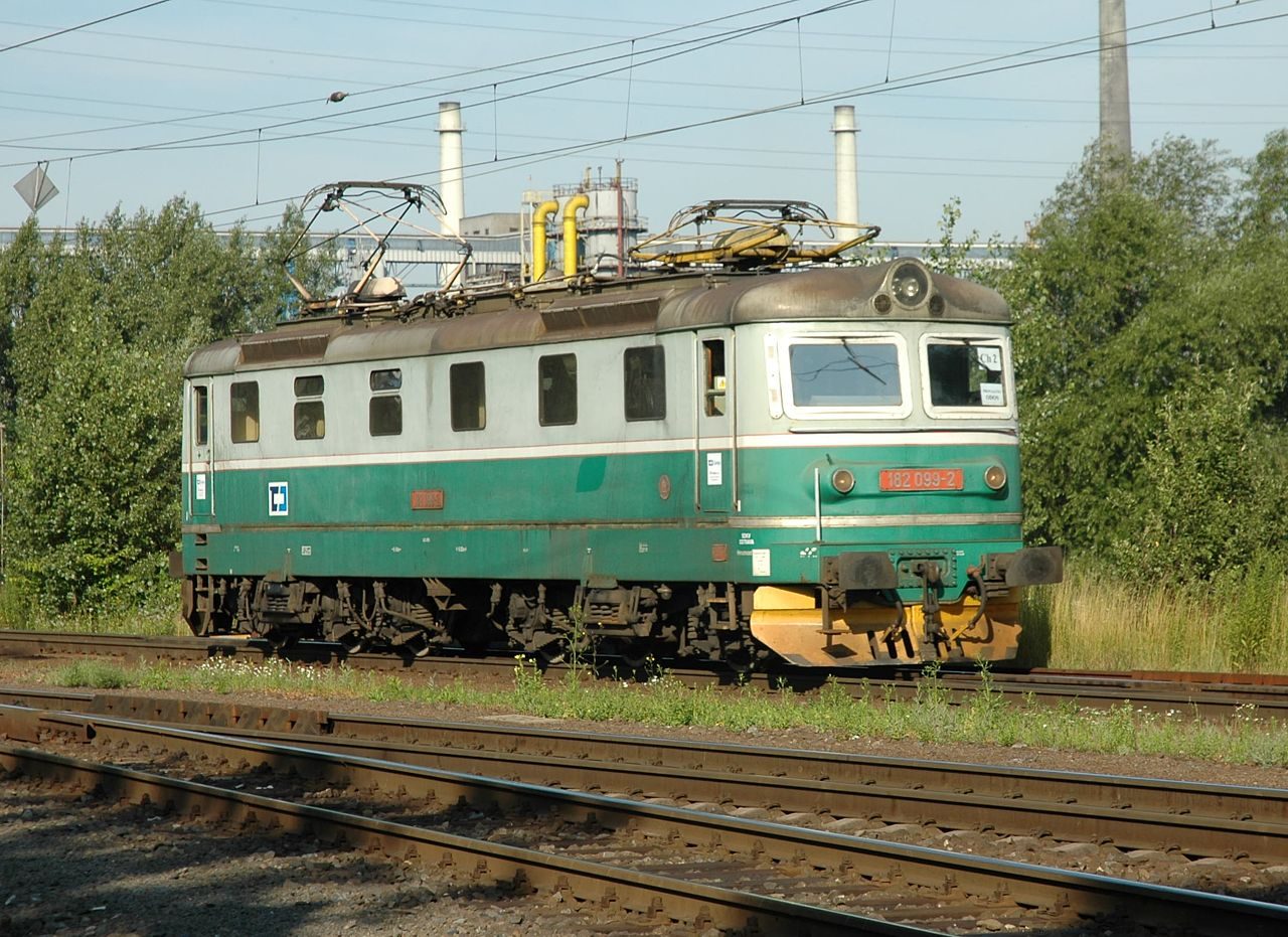 Locomotive 182.099 of ČD Cargo hired to railway operator ODOS, Ostrava main station, Czech Republic